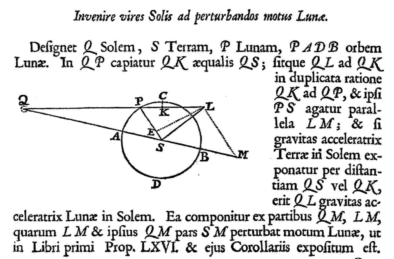 Isaac Newton's diagram from the 'Principia' of 1687 (Book 3, Proposition 25, at p.434), with his pioneering analysis of perturbing forces on the Moon in the Sun-Earth-Moon system.